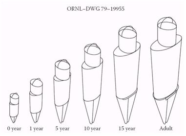 External views of the age-specific phantom, phantoms representing an adult and children at 15 (adult female), 10, 5, 1, and 0 (newborn) years of age. When used for an adult female, the 15 year phantom has breasts appropriate for a reference adult female, which are not shown.